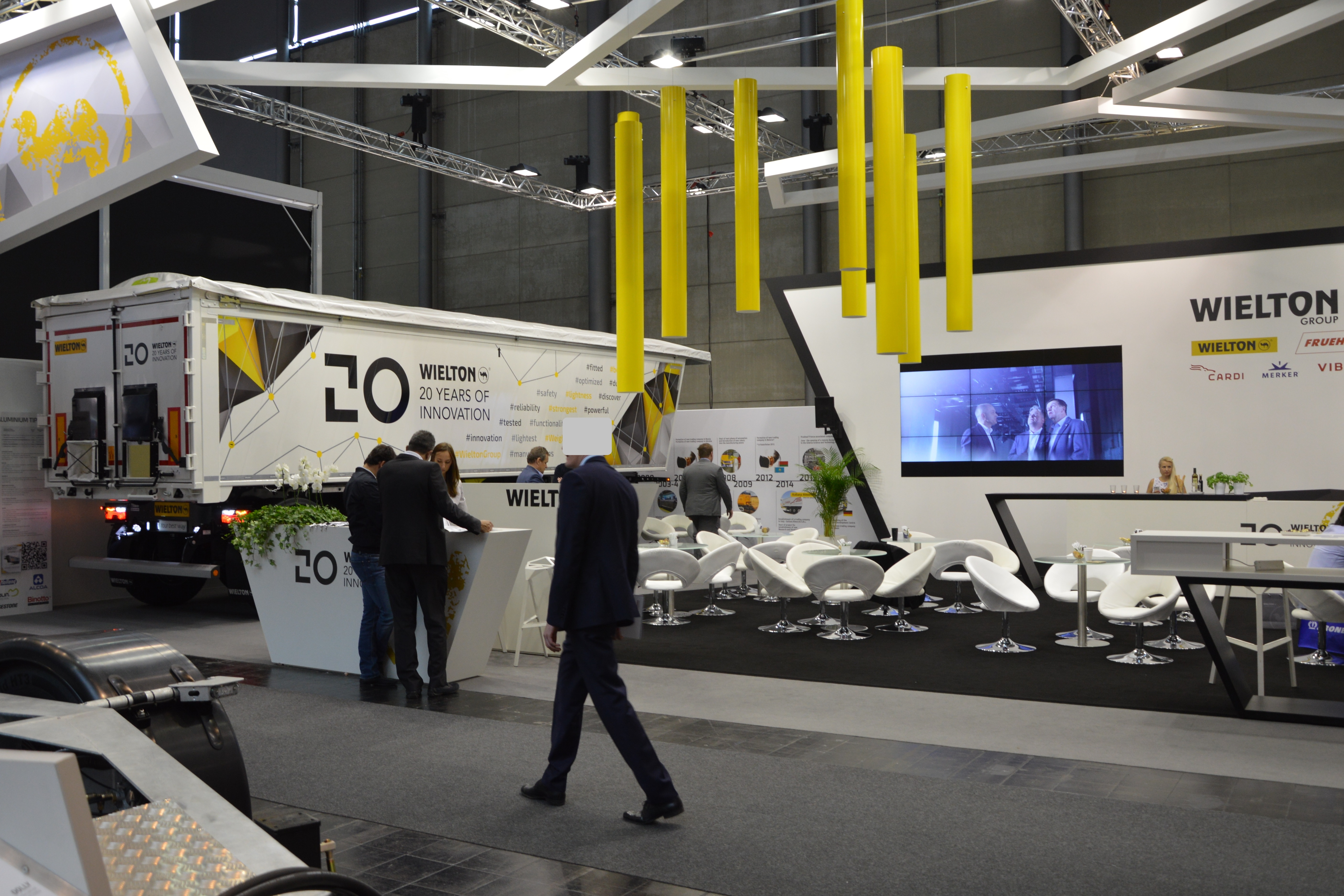 Wielton stand at IAA 2016.